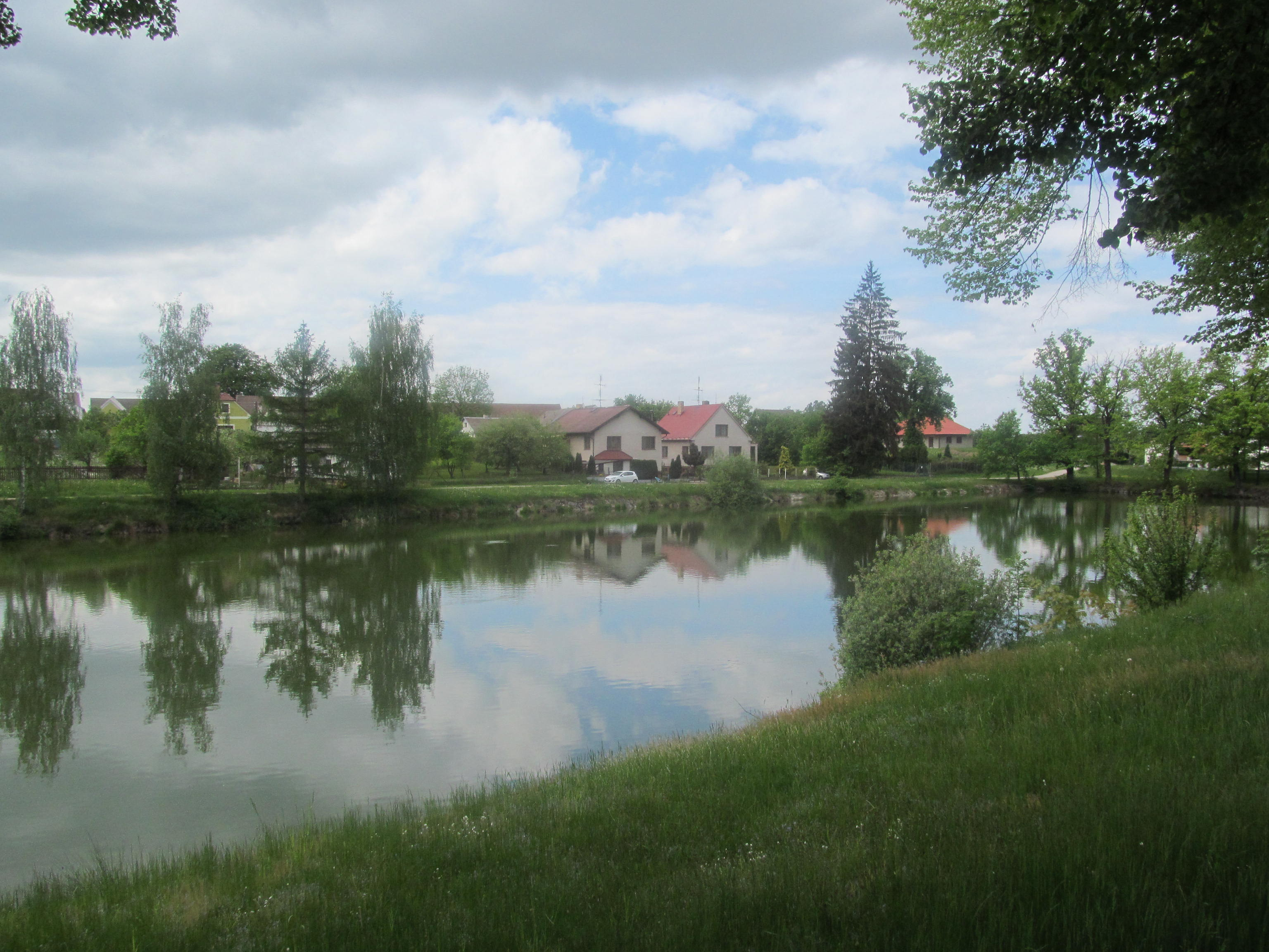 Třebeč – total view